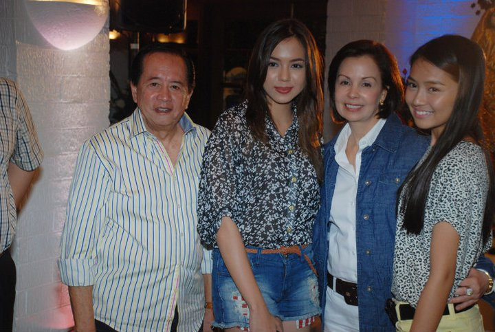 Julia Montes with cojuangco